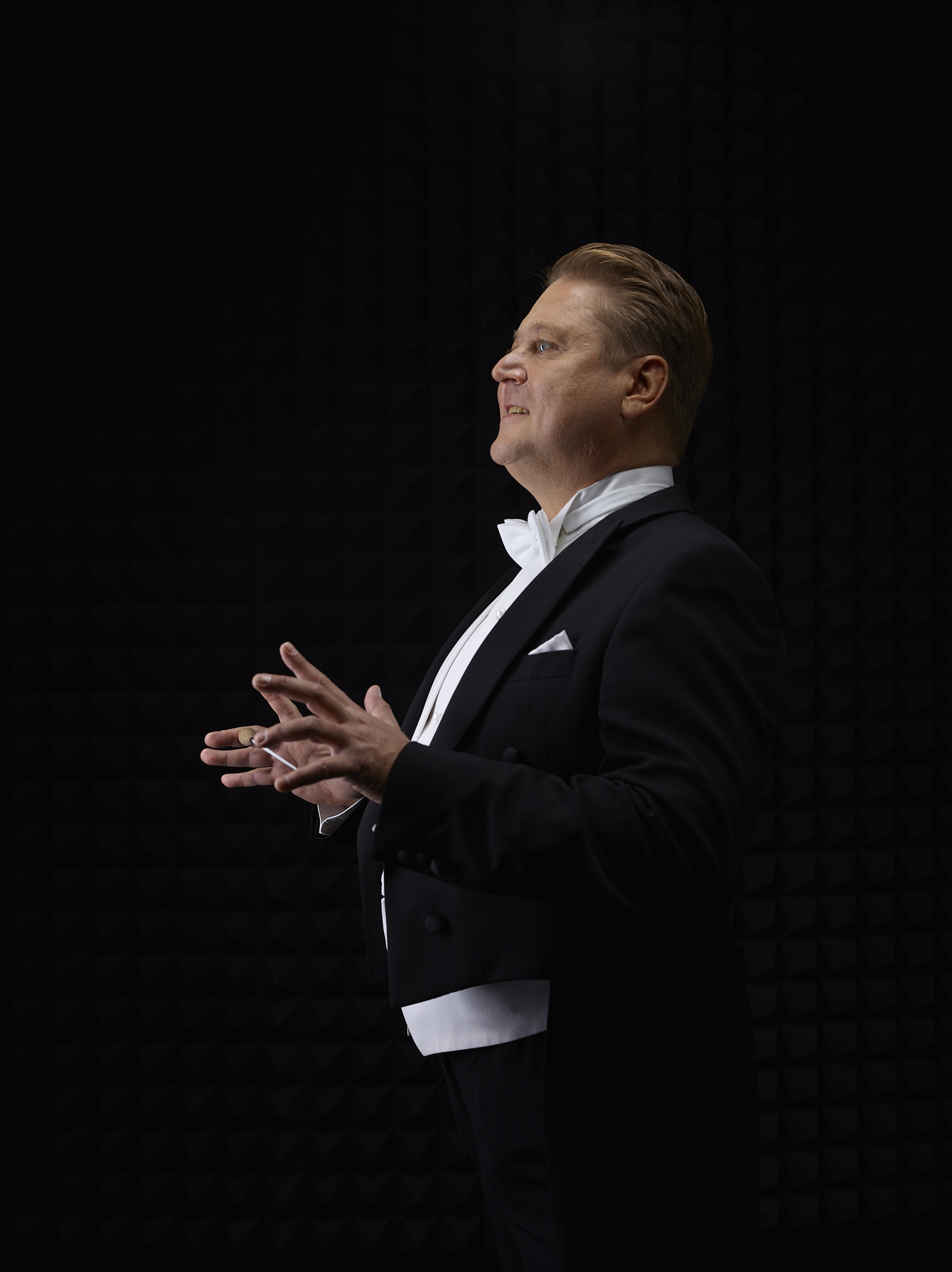 He is an artistic director and chief conductor of the Tatarstan National Symphony Orchestra, Honored Artist of Russia (2005), People’s Artist of Russia (2016).